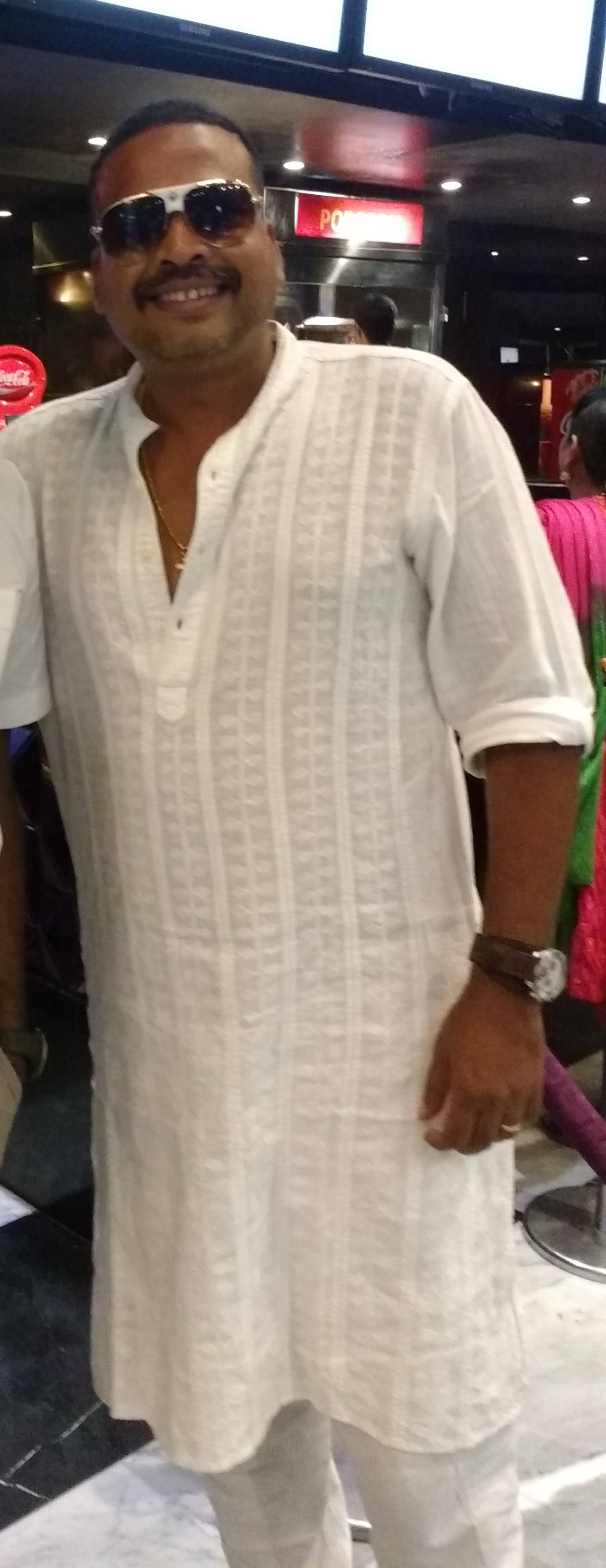 Tamil Actor John Vijay at LUXE cinemas, Chennai during the KO2 movie show